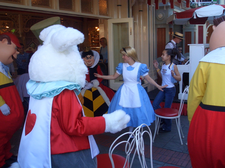 A Disneyland actress costumed as the title character of the 1951 film Alice in Wonderland is shown playing musical chairs with actors representing other characters from that film at Coca-Cola Refreshment Corner on Main Street (also known simply as "Coke Corner"), accompanied by a ragtime pianist.